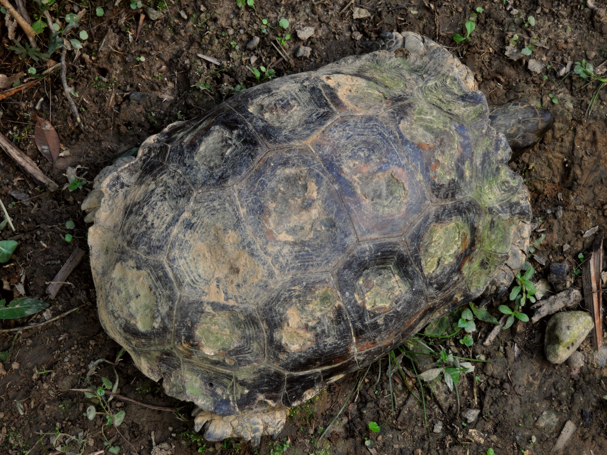 Manouria e. emys, from Upper Pawan River, Ketapang, West Kalimantan, Indonesia. Carapace length ca 40 x 30 cm, plastron 38 x 30 cm.